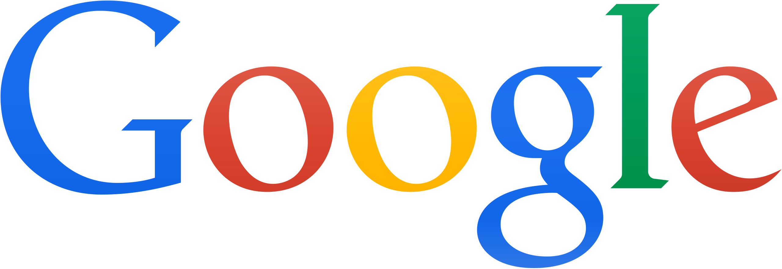 Google logo 2013